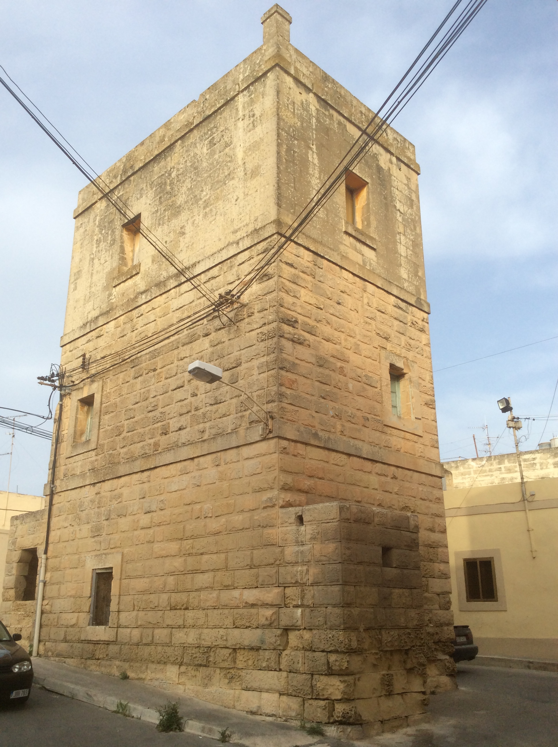 Ghaxaq Semaphor Torri